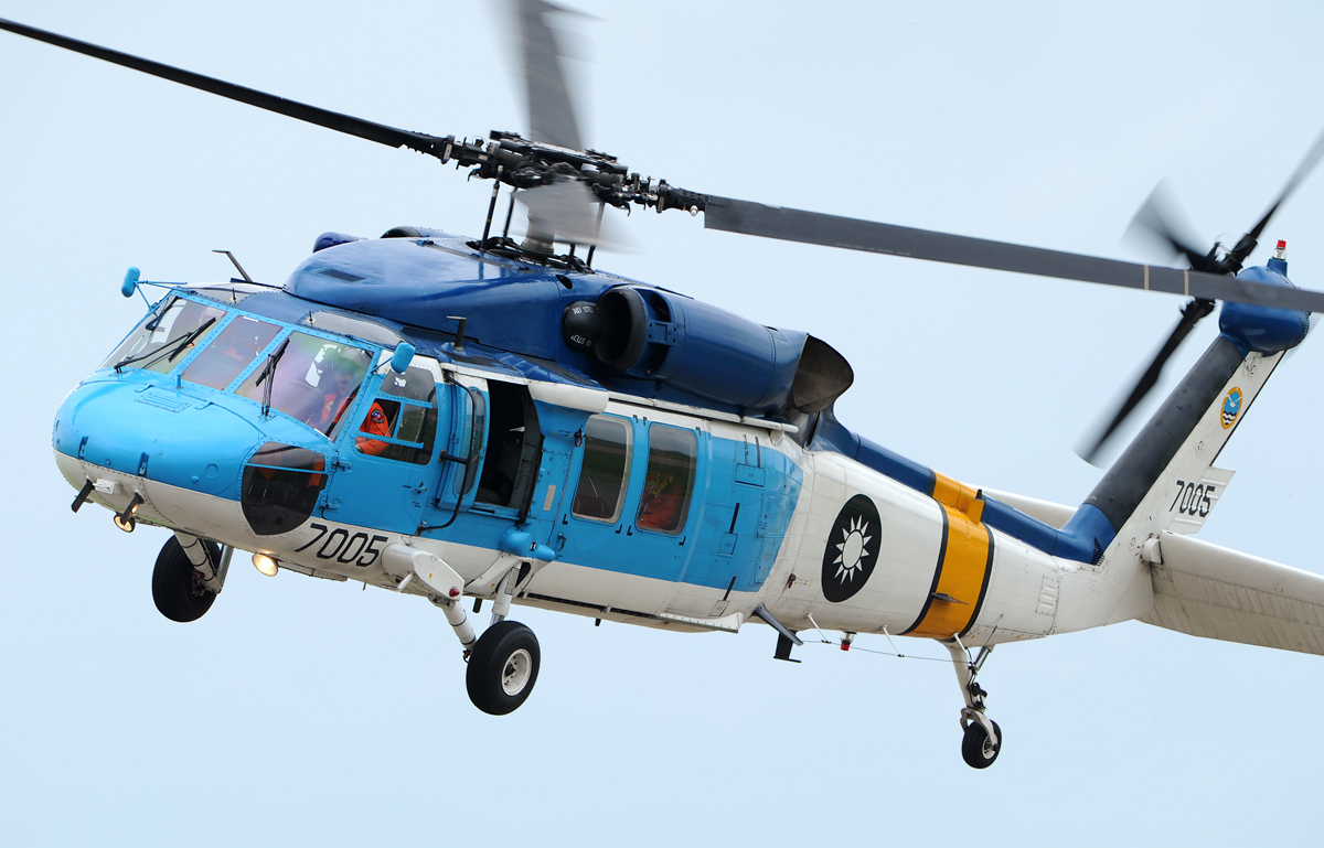 Republic of China Air Force Sikorsky S-70C-1A Bluehawk